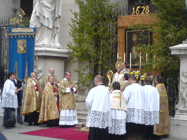 Corpus Christi i Salzburg.